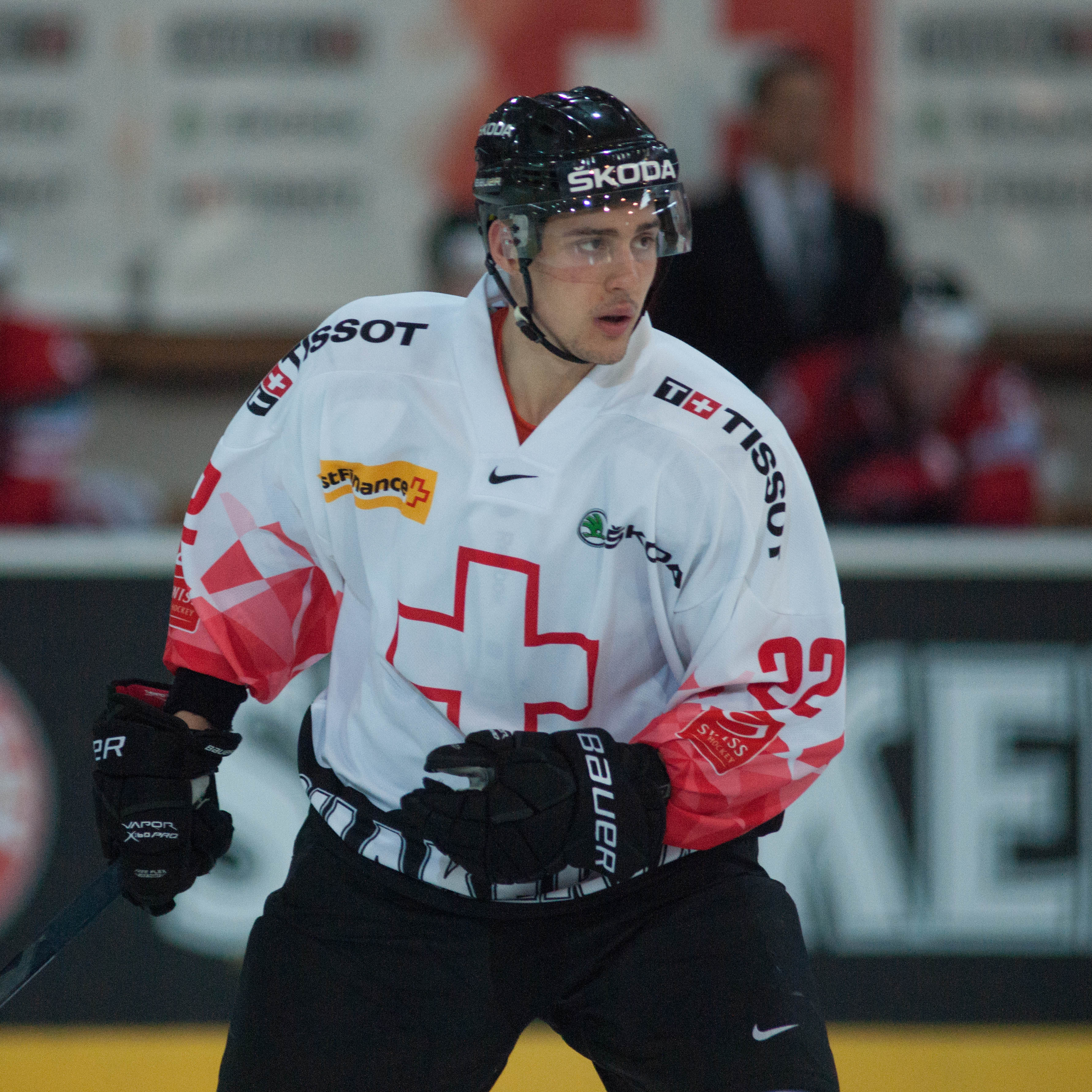 Switzerland vs. Canada, 29th April 2012